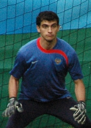 Vladimir Gabulov during Euro 2008